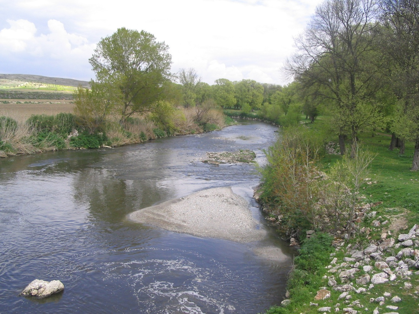 Manzanares River in Getafe (Community of Madrid, Spain).